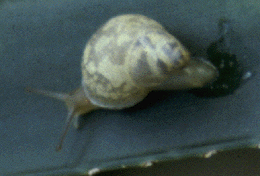 The fragile tree snail (Samoana fragilis) is a critically endangered species from Guam (none seen since 1996) and Rota (one population of about 100 individuals).